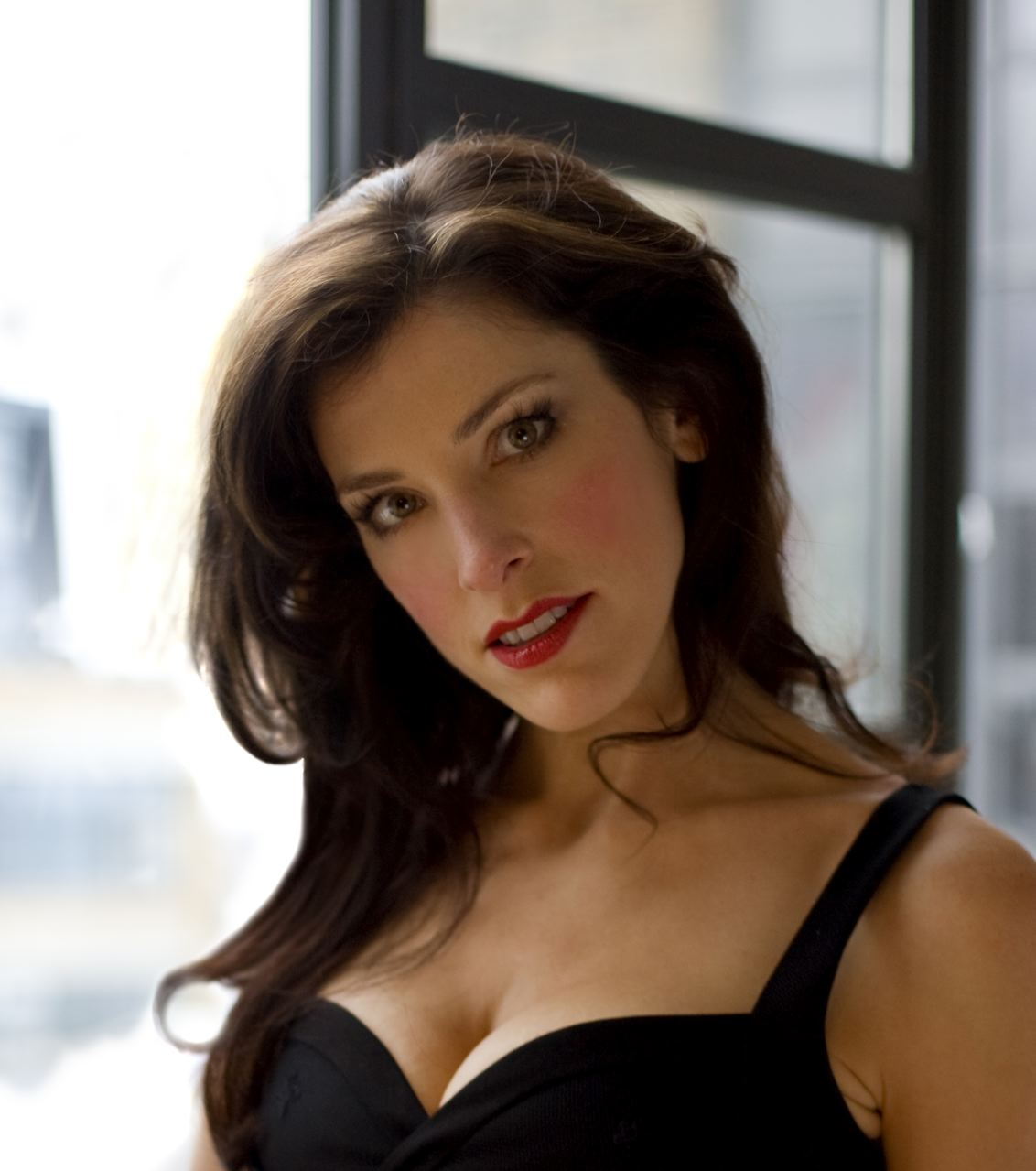 Photograph of Welsh singer Juliette Pochin